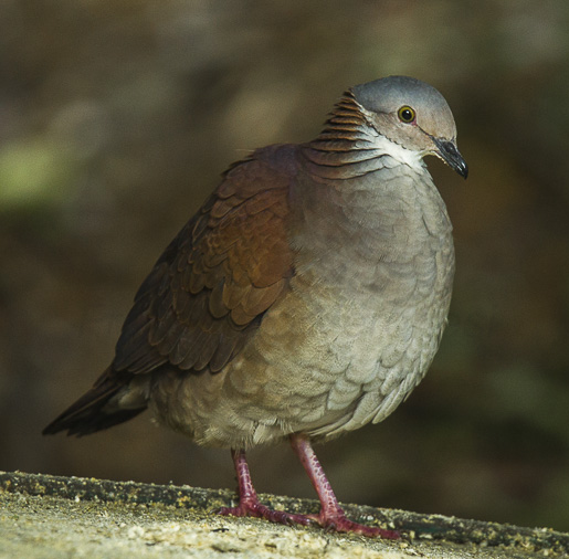 White-throated Quail-Dove (Zentrygon frenata), Ecuador